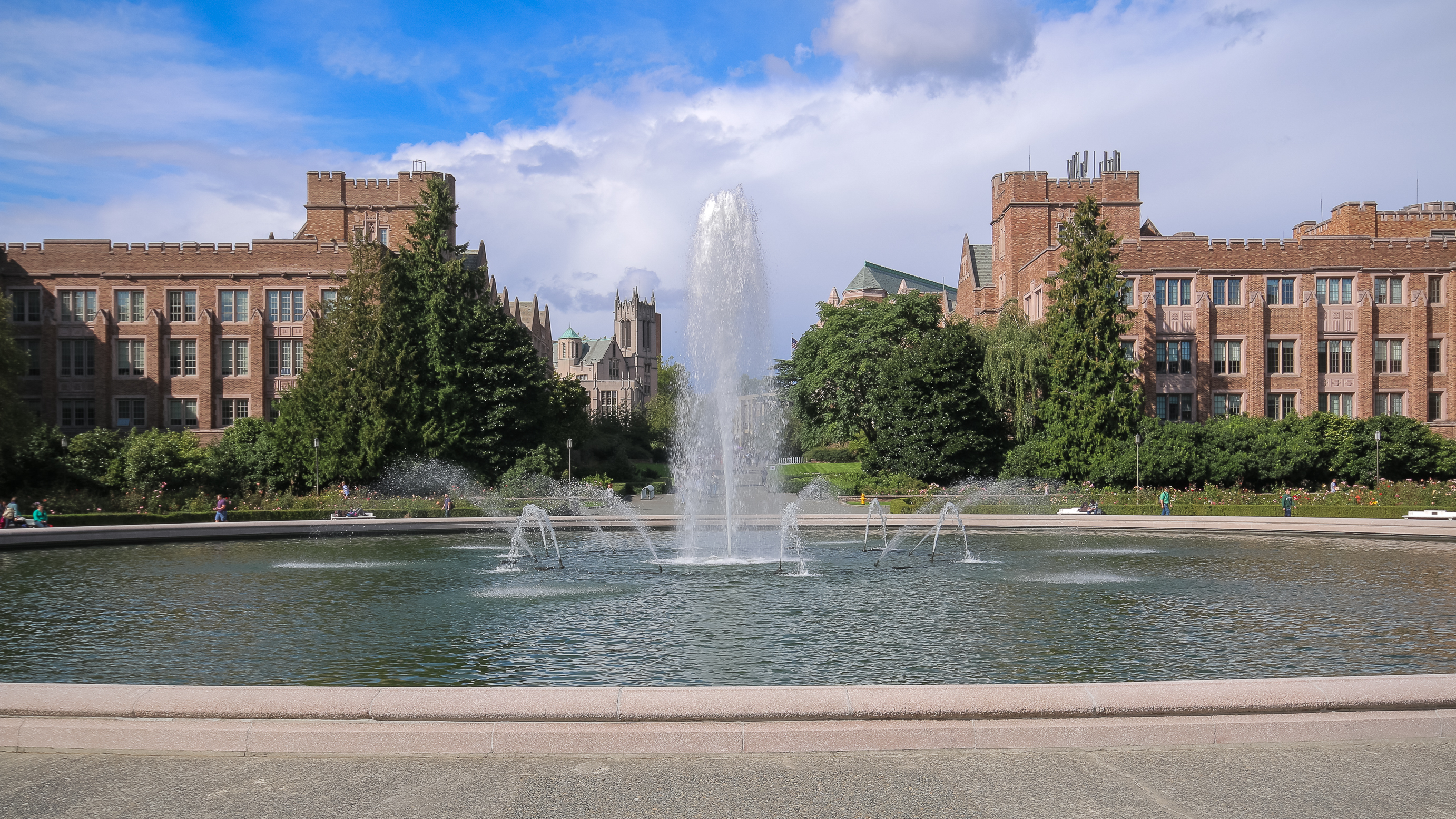 Johnson Hall, Gerberding Hall, Suzzallo Library, Mary Gates Hall and the Drumheller Fountain on the campus of the University of Washington